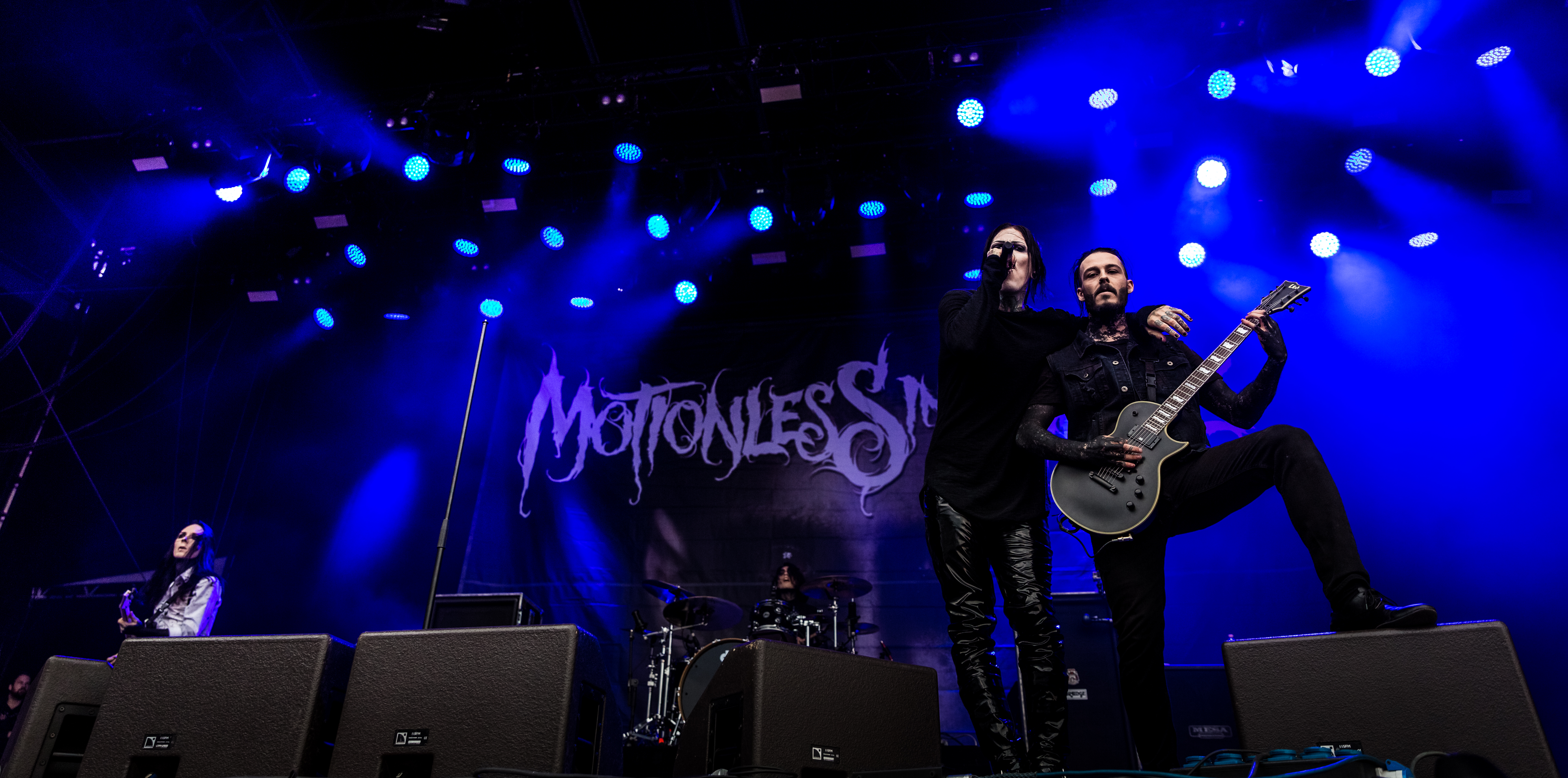 Motionless in White - Rock am Ring 2017